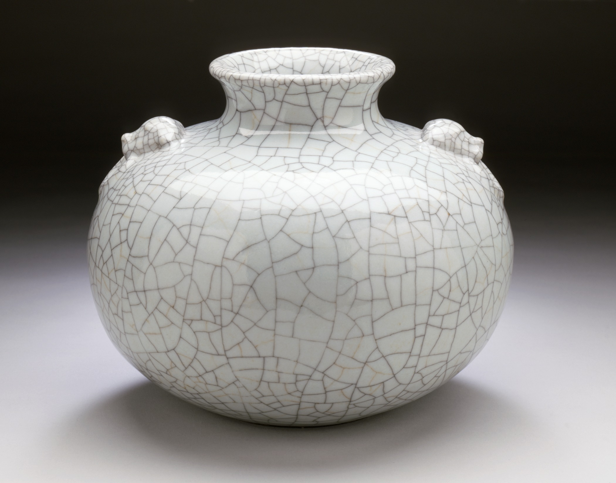 China, Jiangxi Province, Jingdezhen, Chinese, Qing dynasty, Qianlong mark and period, 1736-1795 Furnishings; Serviceware Wheel-thrown ge-type porcelain with molded and applied decoration Gift of Jo Ann and Julian Ganz, Jr., in memory of Alice and Joe M. Schaaf (AC1999.38.8) Chinese Art Currently on public view: Hammer Building, floor 2